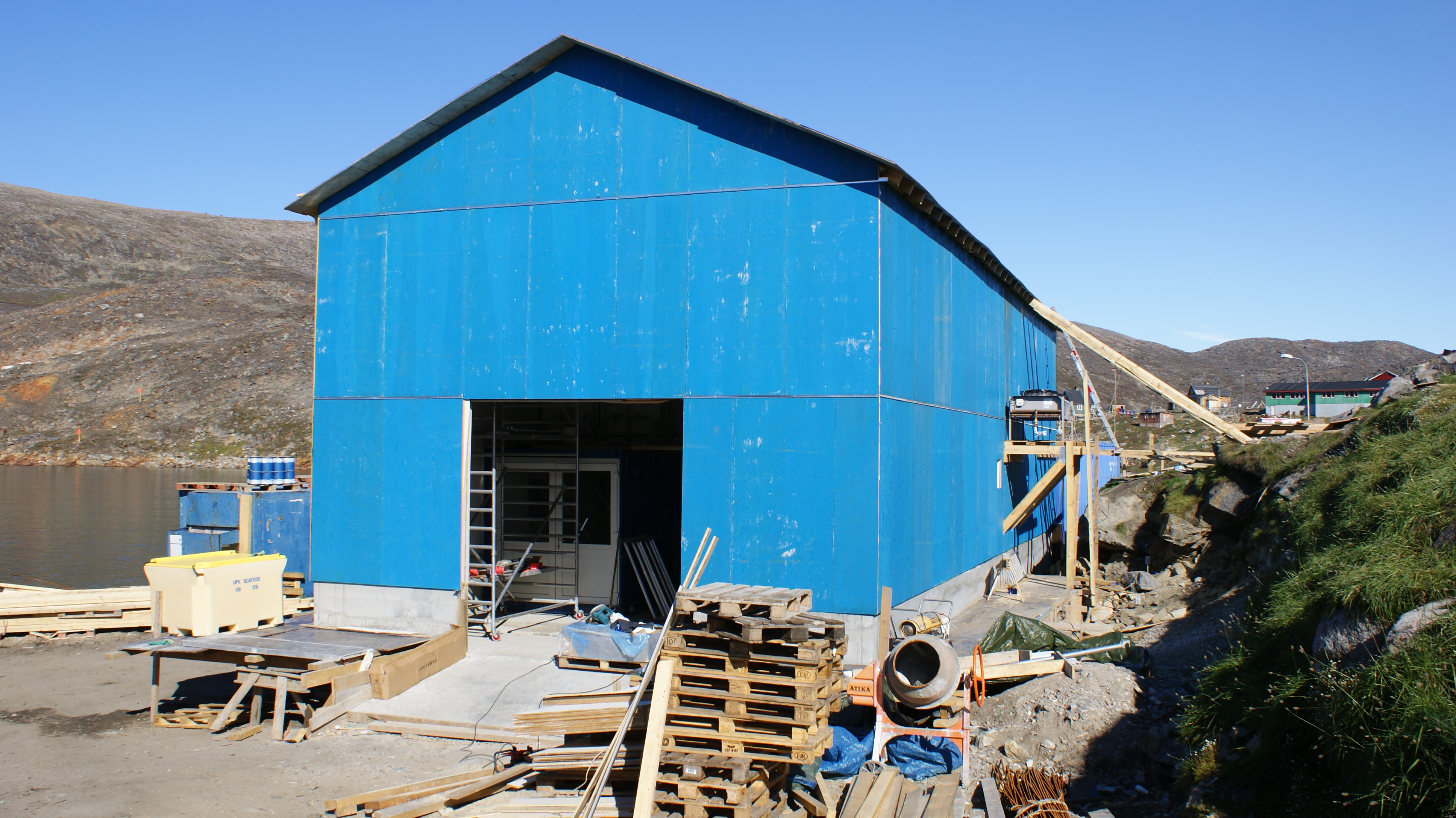 Upernavik Seafood fish processing factory under construction. Nuussuaq, Upernavik Archipelago, Greenland.